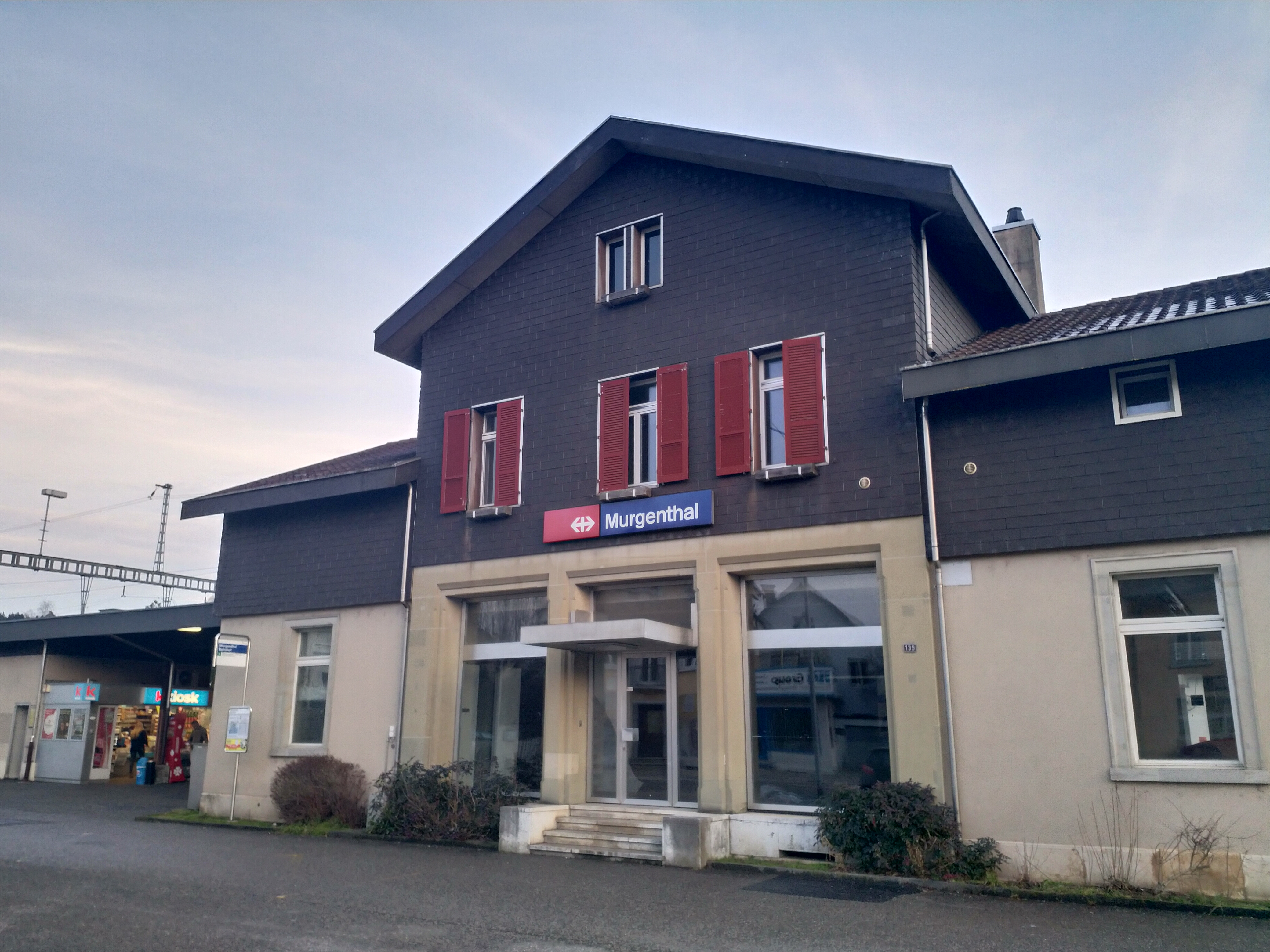 Train station of Murgenthal, Canton of Aargau, Switzerland, as seen from the street side.